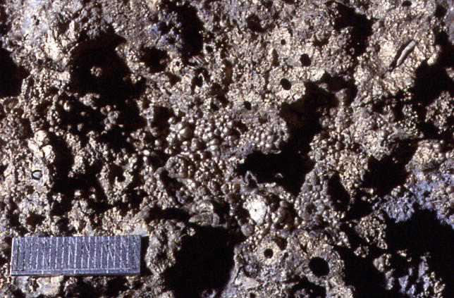 A view from above a chimney field, showing the chimneys (round black circles) and bubbles, which contain chambers. The object placed for scale is two centimeters across. These fossil chimneys were formed well after life's origin, but may be similar to those in which, according to one hypothesis, metabolism first began. (From Richard Robinson in PLoS, nov 2005